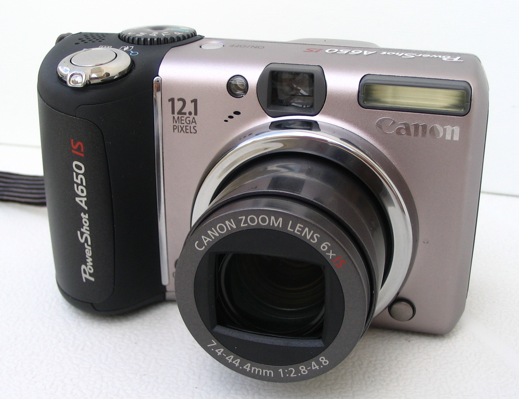 Canon PowerShot A650 IS front